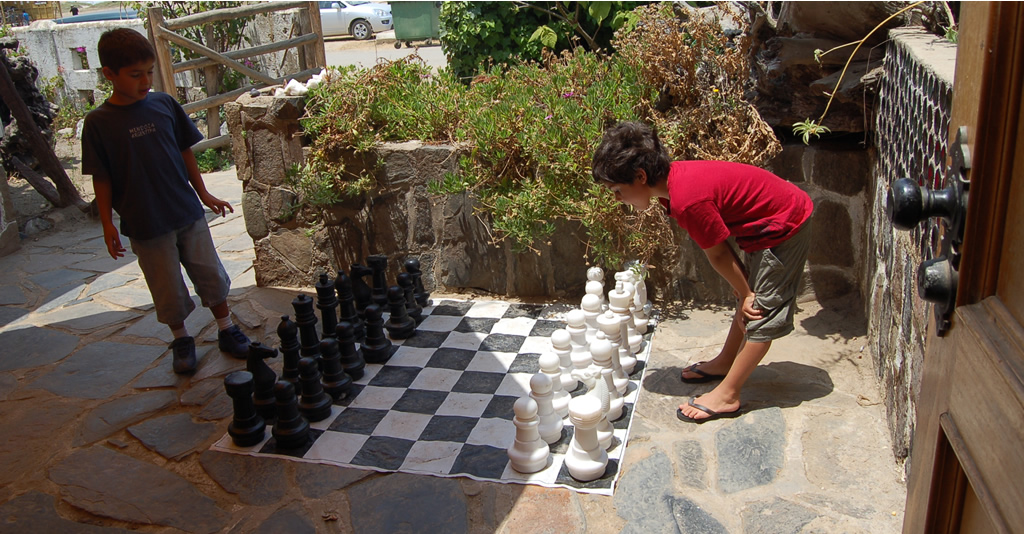 Two kids preparing to start a chess tournament. Los Molles, Chile.